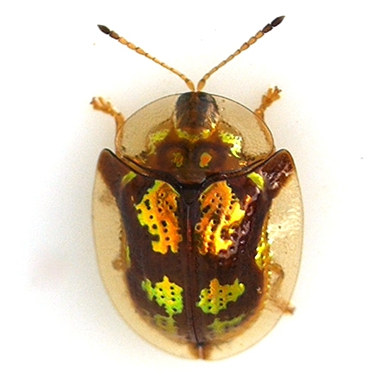 Deloyala guttata - Mottled Tortoise Beetle. Cross Plains, WI, USA